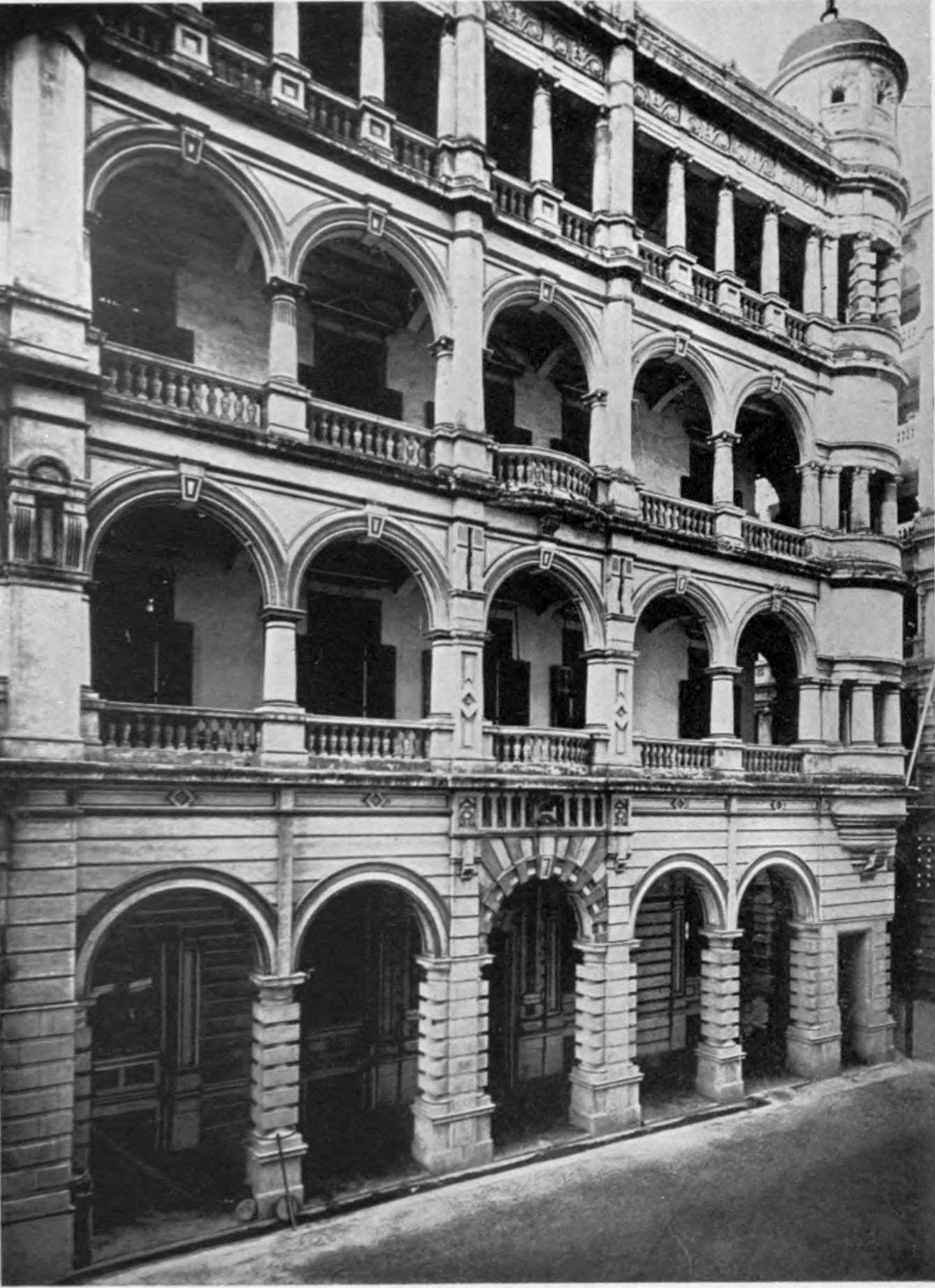 Bank of Indochina